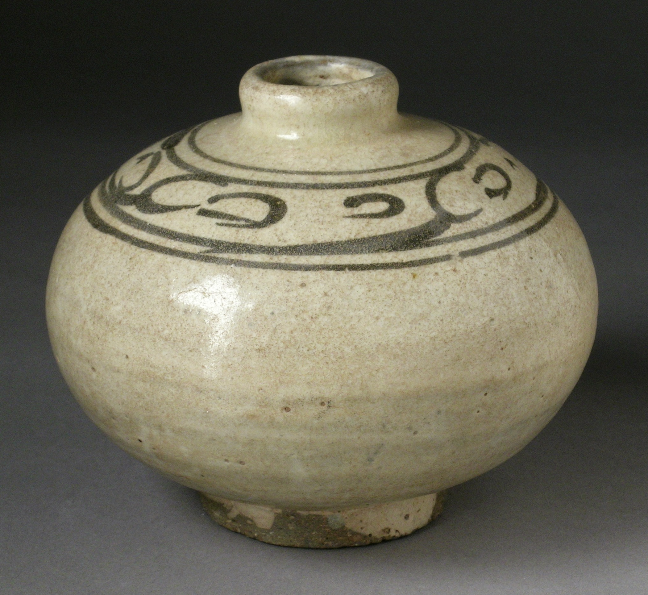 Thailand, Sukhothai, late 14th century Furnishings; Serviceware Wheel-thrown stoneware with cream slip, underglaze brown painted decoration, and clear glaze Gift of Ambassador and Mrs. Edward E. Masters (M.84.213.204) South and Southeast Asian Art